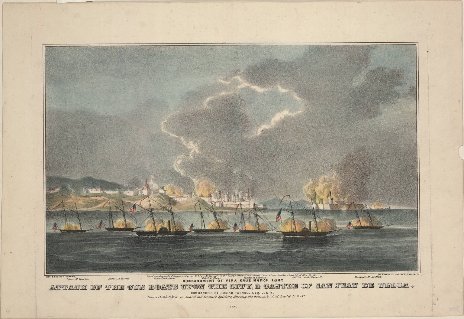 lithograph by N. Currier titled Attack of the Gun Boats upon the City, & Castle of San Juan de Ulloa in Yale Collection of Western Americana, Beinecke Rare Book and Manuscript Library, Bibliographic Record Number 2016016